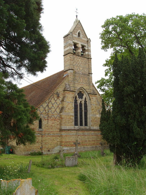 St Barnabas Church, Horton-cum-Studley. Designed in 1867 by William Butterfield. A leaflet in the church says: "One of its most striking features is the colour of the brickwork, which is faded yelow banded with red and dark blue. . . The bricks were hand-made locally."